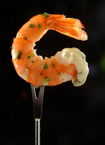 Shrimp photo